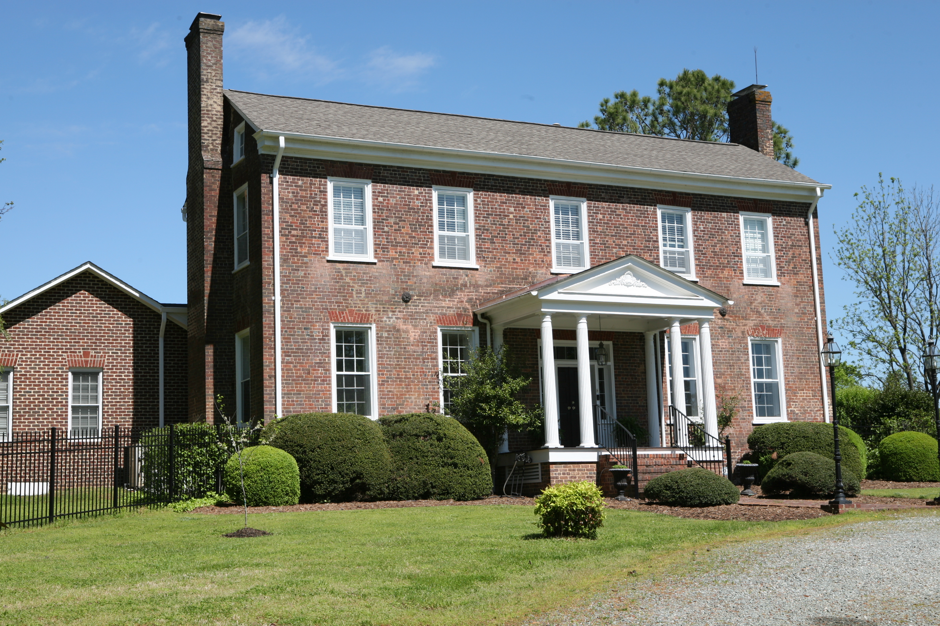 Left Front Outside view